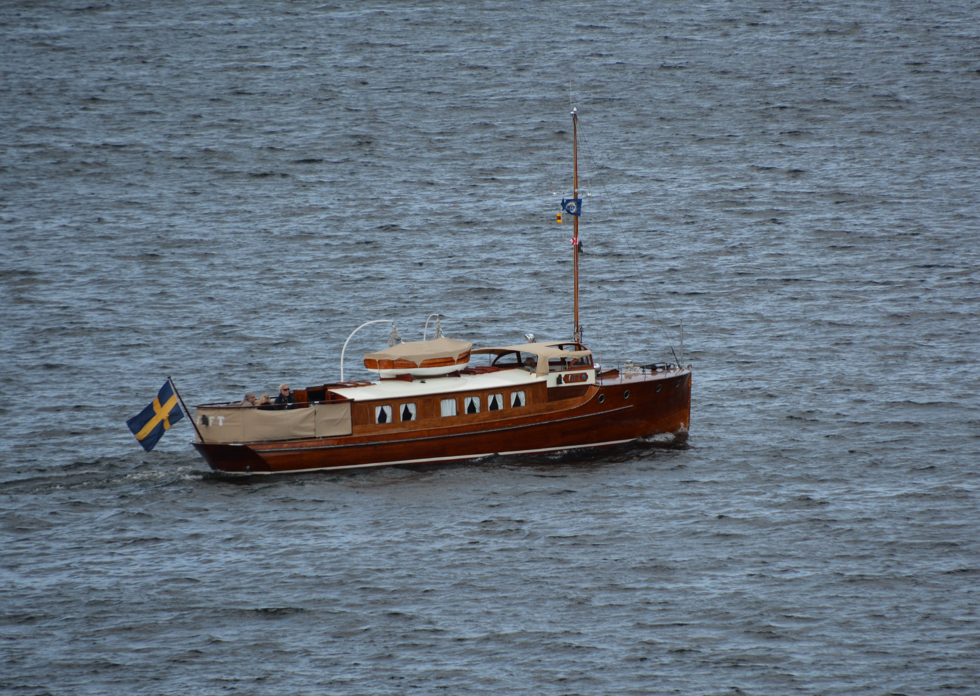 M/Y Vift